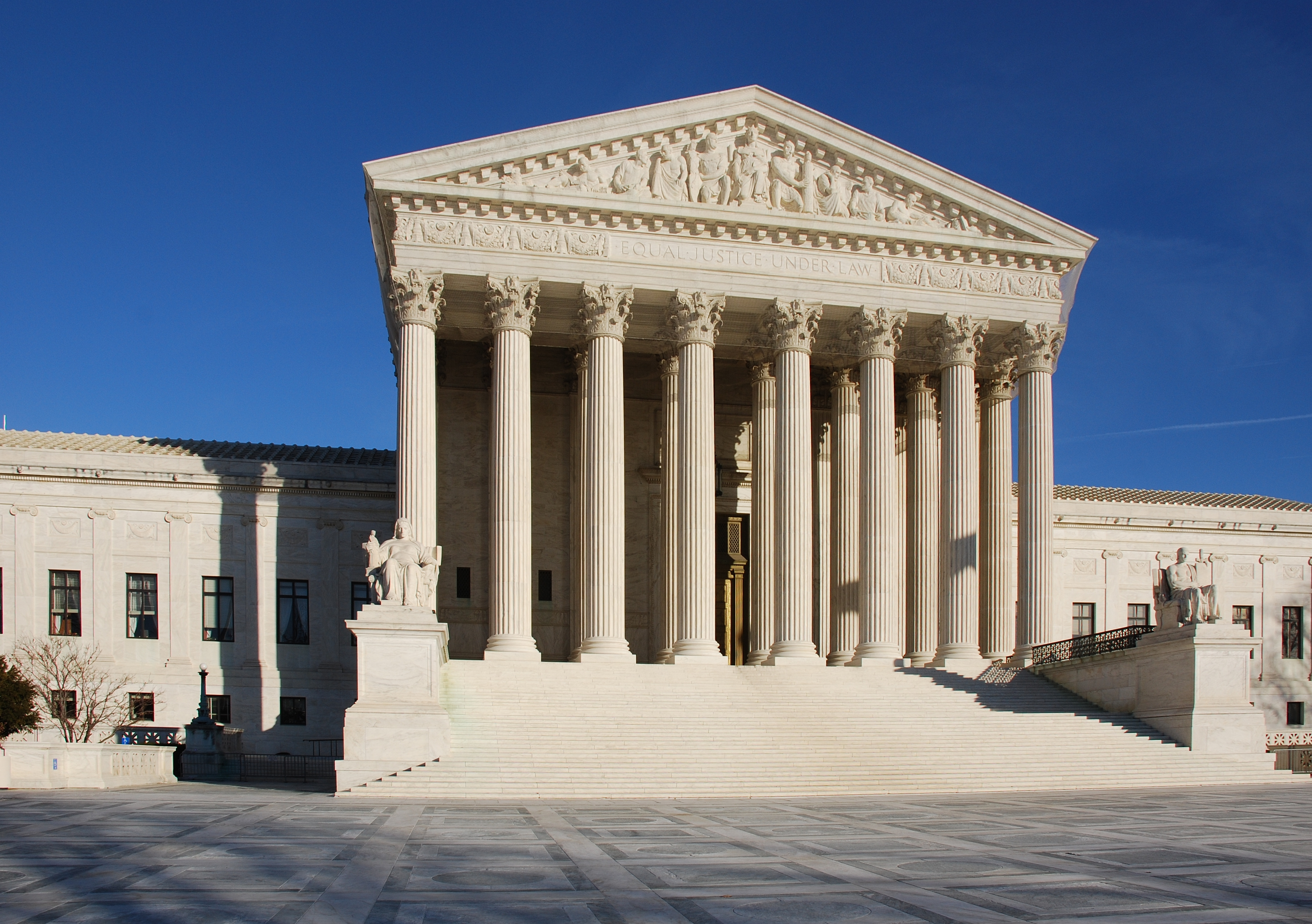 United States Supreme Court building in Washington D.C., USA. Front facade.